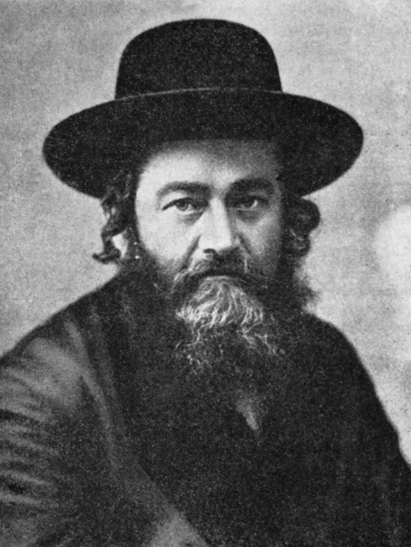 Rabin Yehuda Meir Shapiro